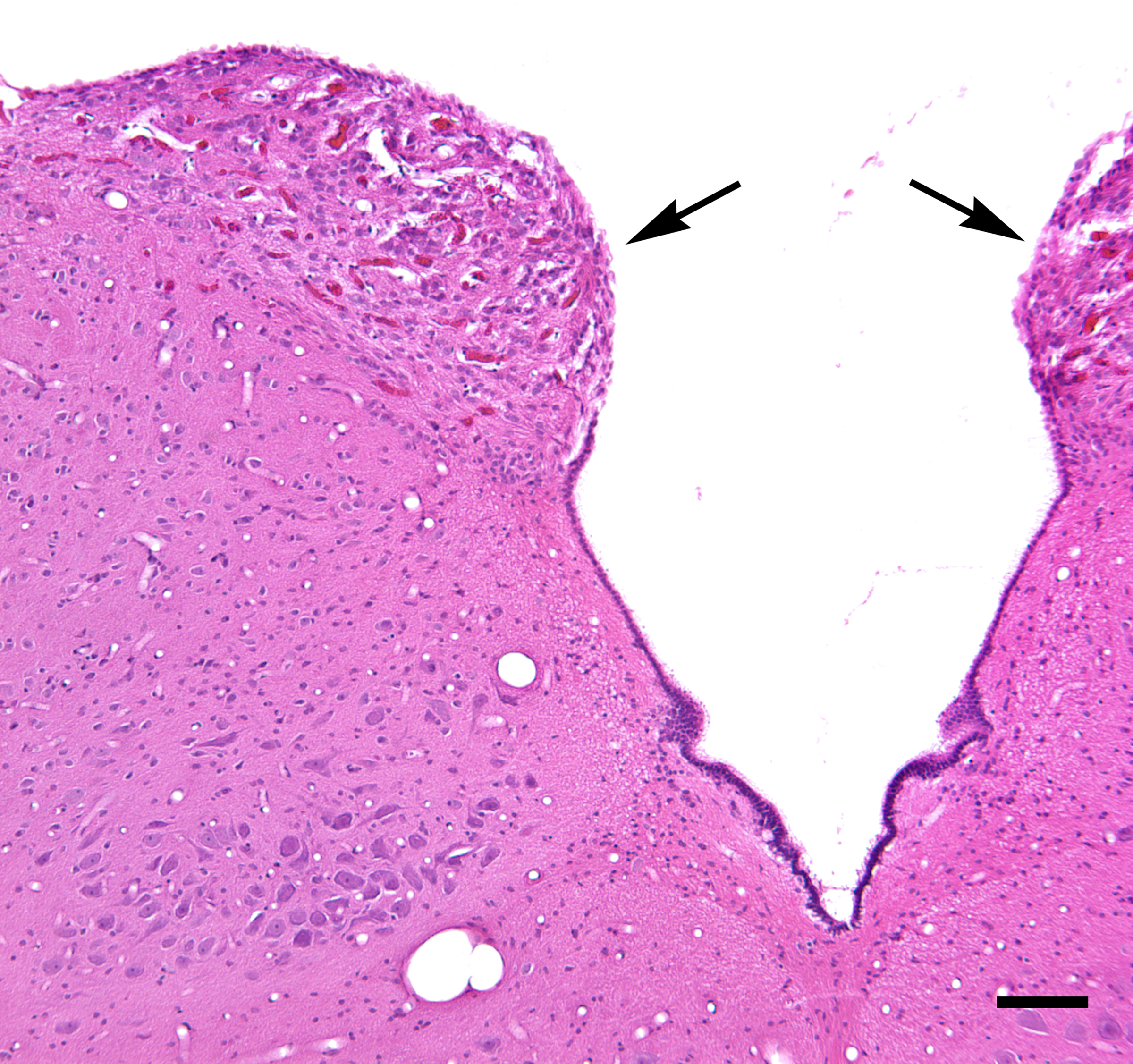 Micrograph depicting the area postrema (arrows) in a cross-section through the lower brainstem of a squirrel monkey (Saimiri sciureus). The area postrema is a swelling on both walls of the fourth ventricle (the V-shaped space) just before it narrows caudally into the central canal of the spinal cord. The section was stained with hematoxylin and eosin (H&E); the bar represents a distance of 100 microns (0.1 millimeter).